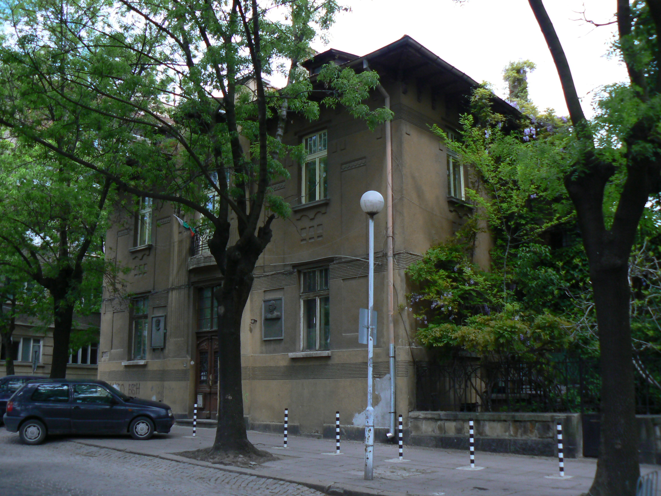 The house of Ivanka Boteva and Kiril Botev Petkov, in Sofia, Bulgaria.